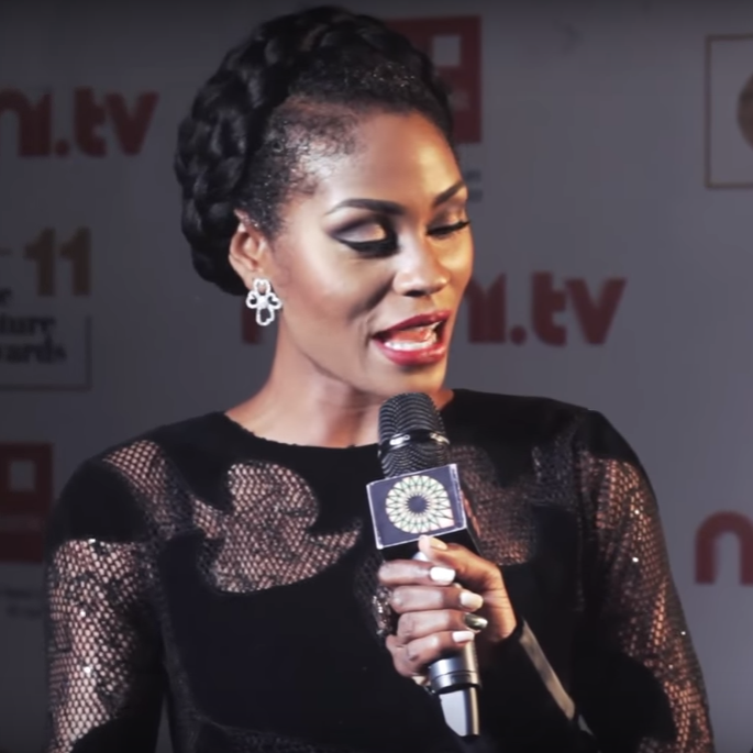 Somkele Iyamah - December 18 2016, gathered at the Federal Palace Hotel, Lagos for the 2016 Future Africa Awards